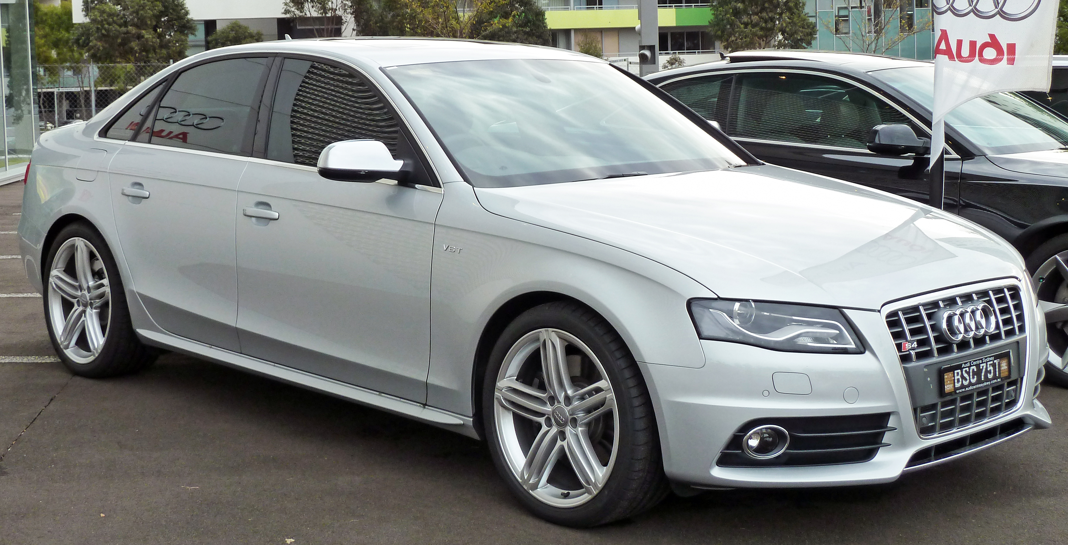 2009 Audi S4 (B8) sedan. Photographed at the Audi Centre Sydney, Zetland, New South Wales, Australia.